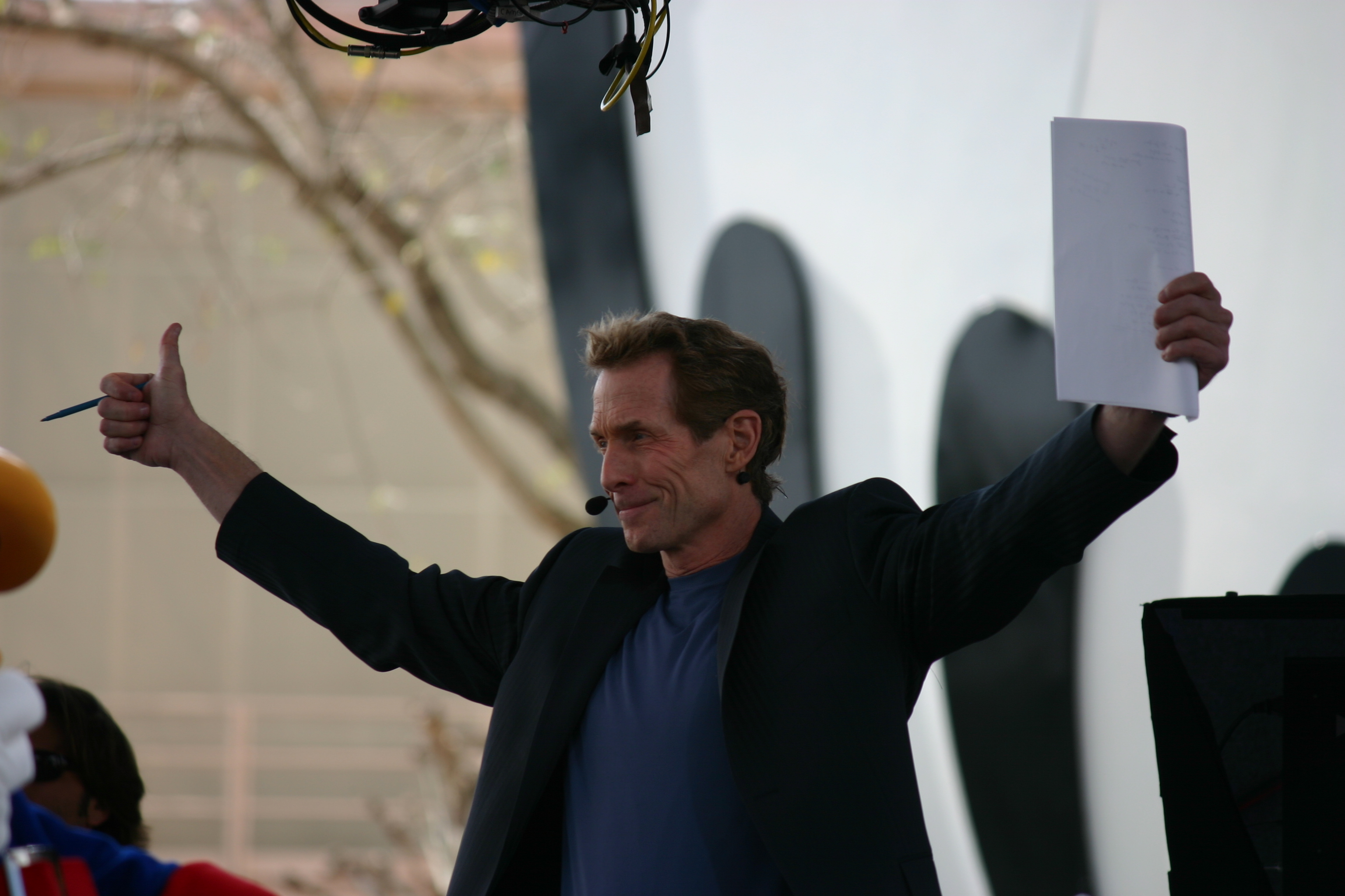 Skip Bayless on set for a broadcast live of ESPN First Take from the Sorcerer's Hat Stage on Friday, March 4, 2011 as part of ESPN the Weekend